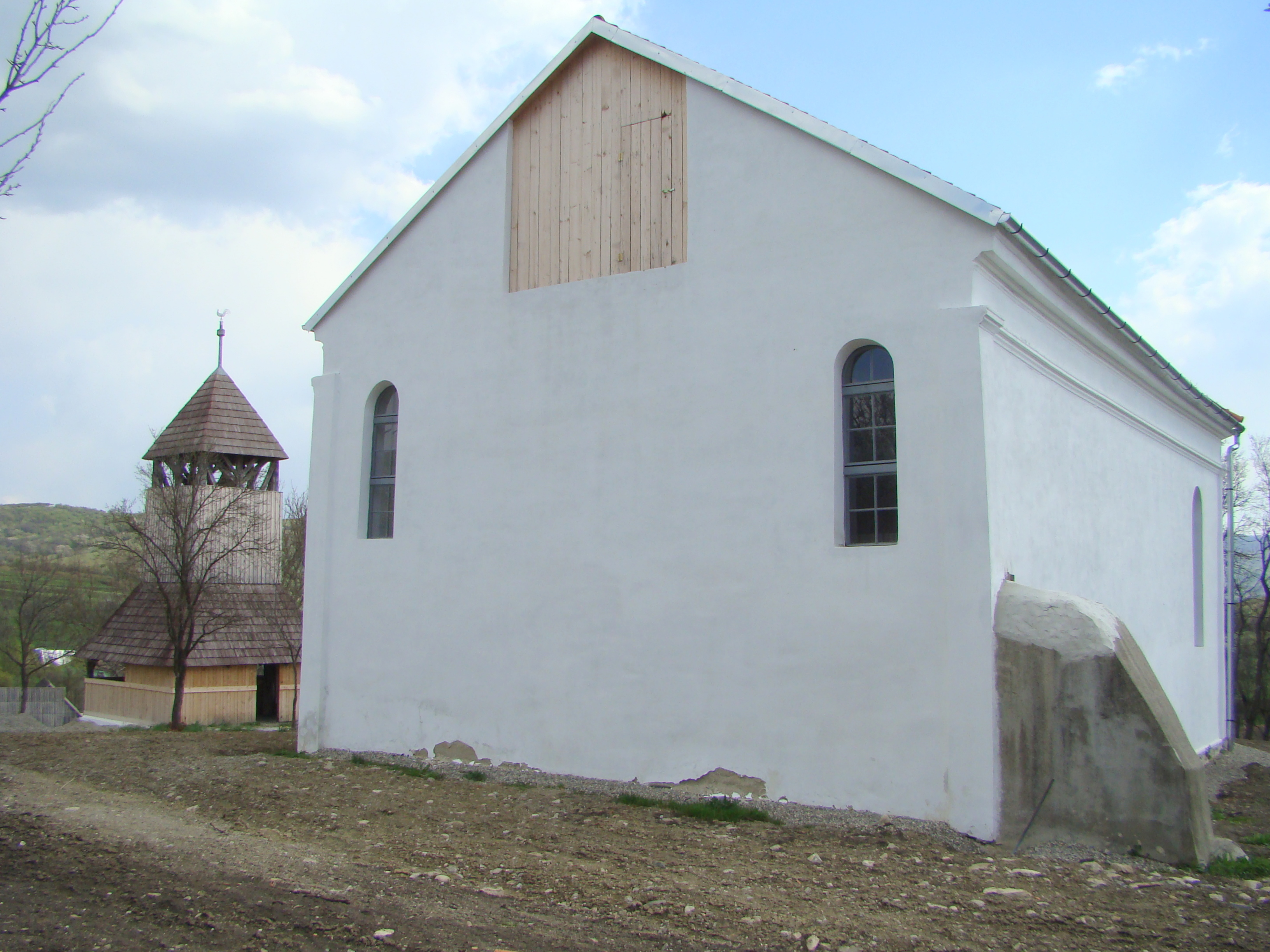 Unitarian church in Tărcești, Harghita county, Romania